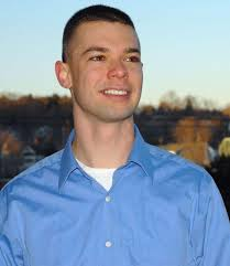 Photo of Alex Cornell du Houx in Brunswick, Maine